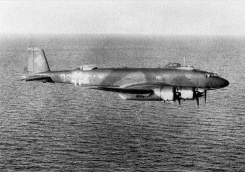 A German Focke-Wulf Fw 200C-2 Condor long range reconnaissance plane from I./KG 40 (probably F8+EV) in flight.